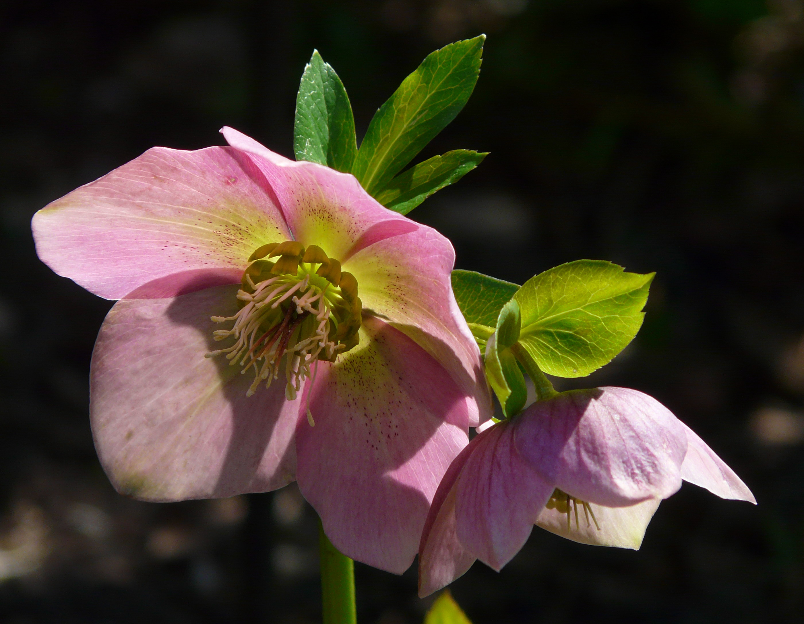 Blossom of Helleborus orientalis